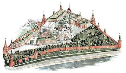 Overview map of the Moscow Kremlin. Location of Nikolskaya Tower marked.